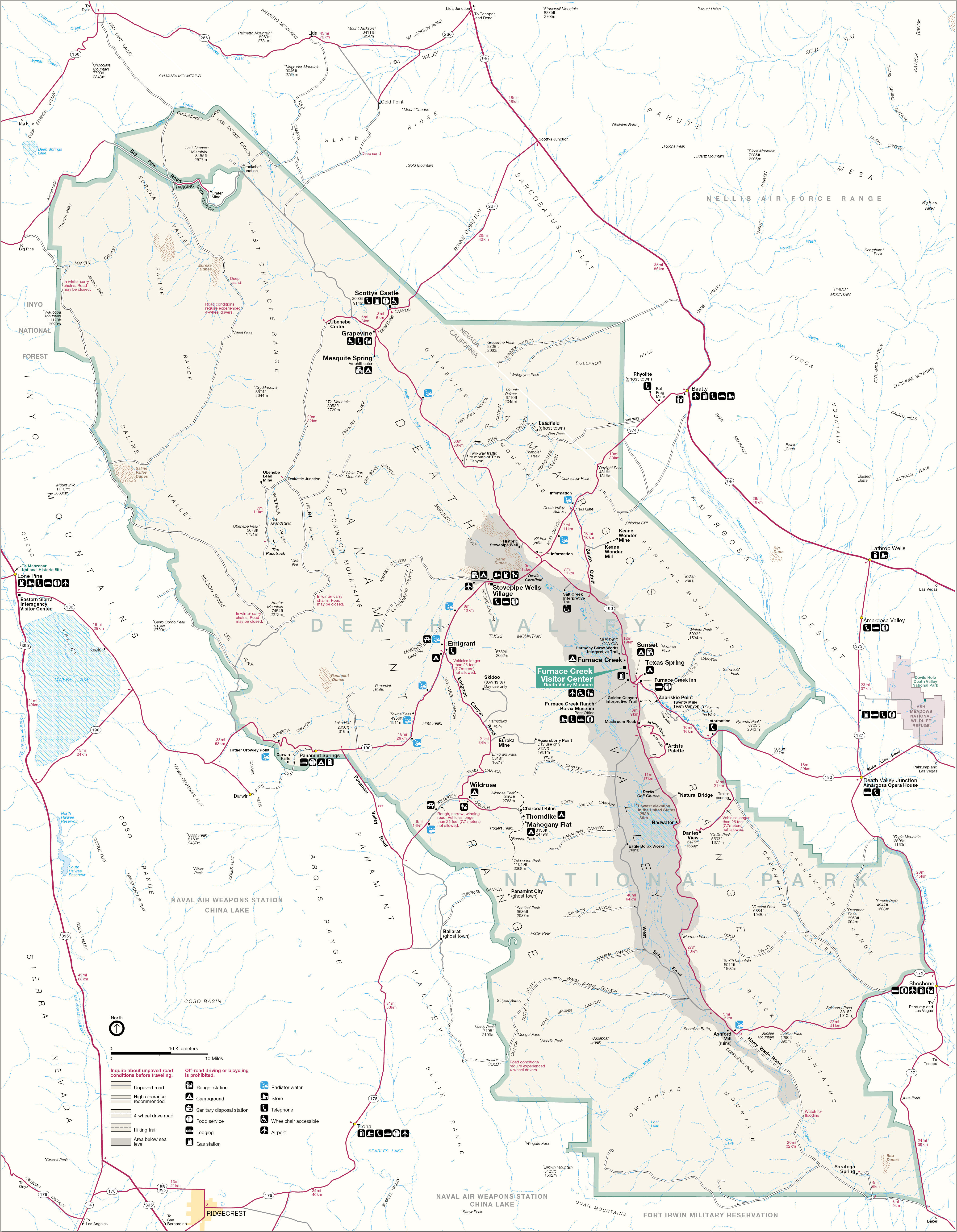 Map of Death Valley National Park — in the Mojave Desert, eastern Southern California.